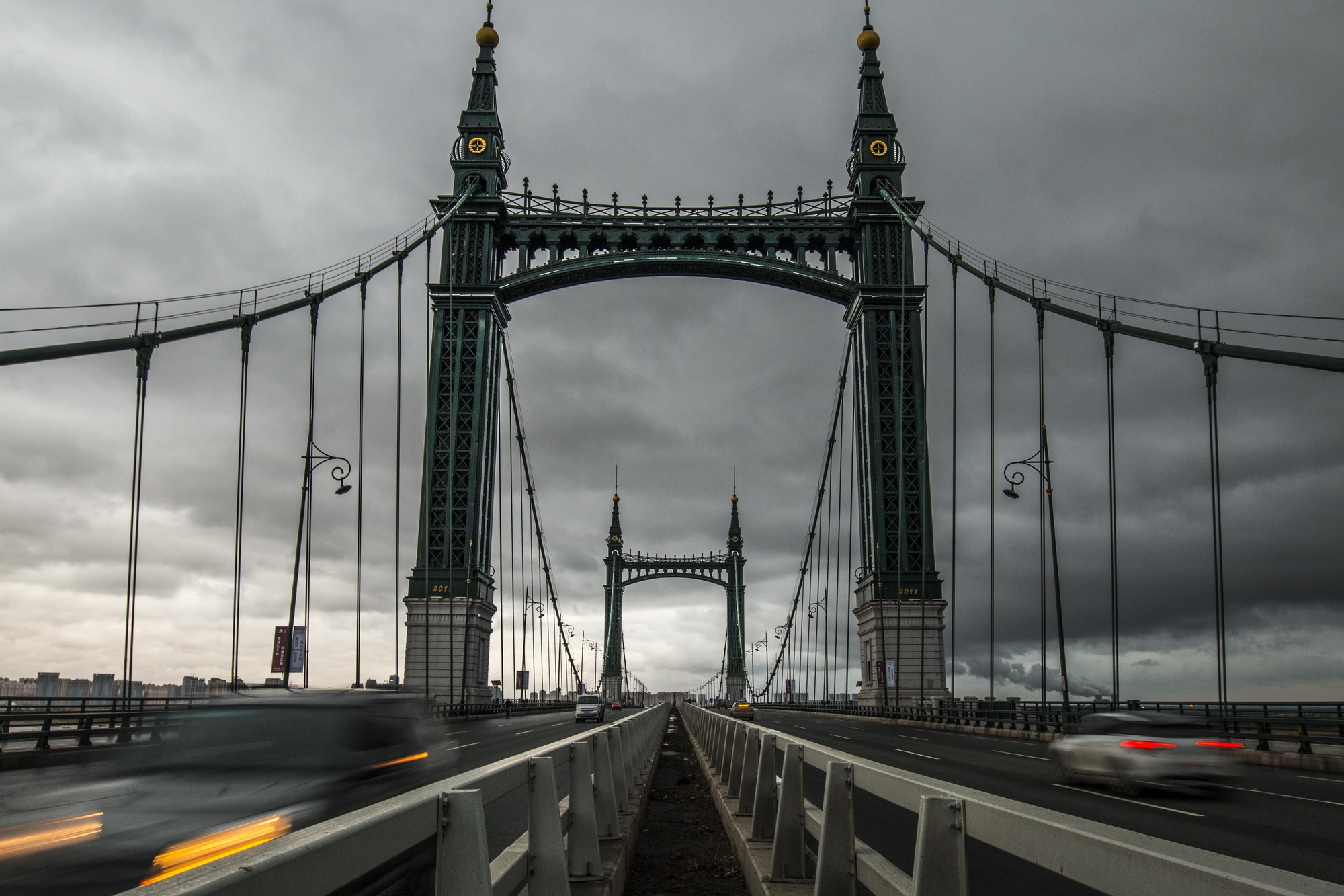 Yangmingtan Bridge, a part of 3rd ring road across Songhua River in Harbin, China.